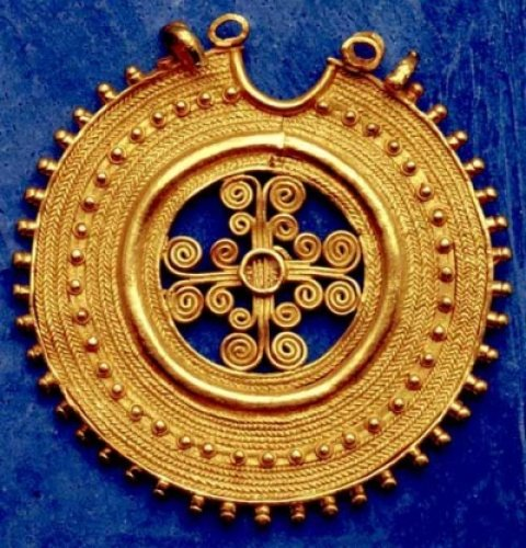 Iberian ear-ring of Condomina, 6th century BCE